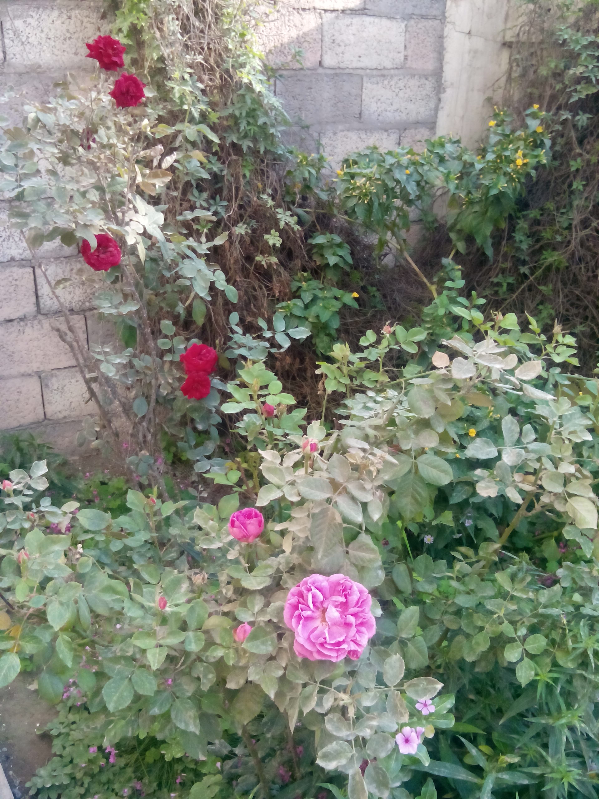 Red Flower's in Baghdad